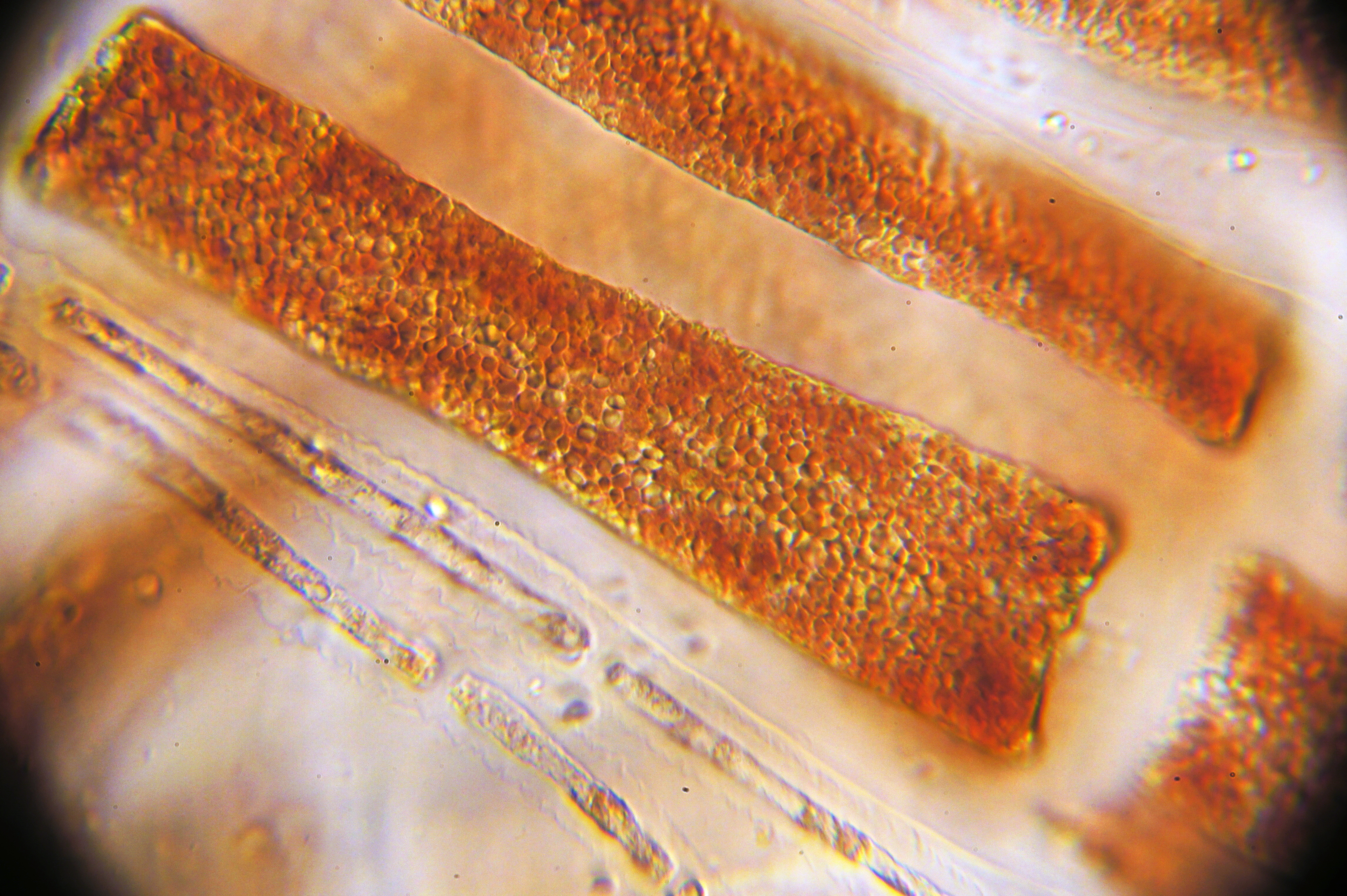 Red algal cells photographed under a 100× oil immersion objective. Lit obliquely. Rhodoplasts are visible.